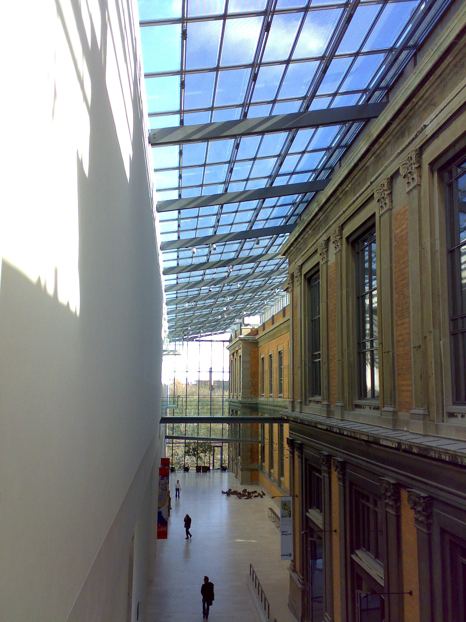 The Danish National Gallery, Copenhagen. Architect: Vilhelm Dahlerup, 1896. The 1998 extension (on the left) designed by architect Anna Maria Indrio (C.F. Møllers tegnestue)